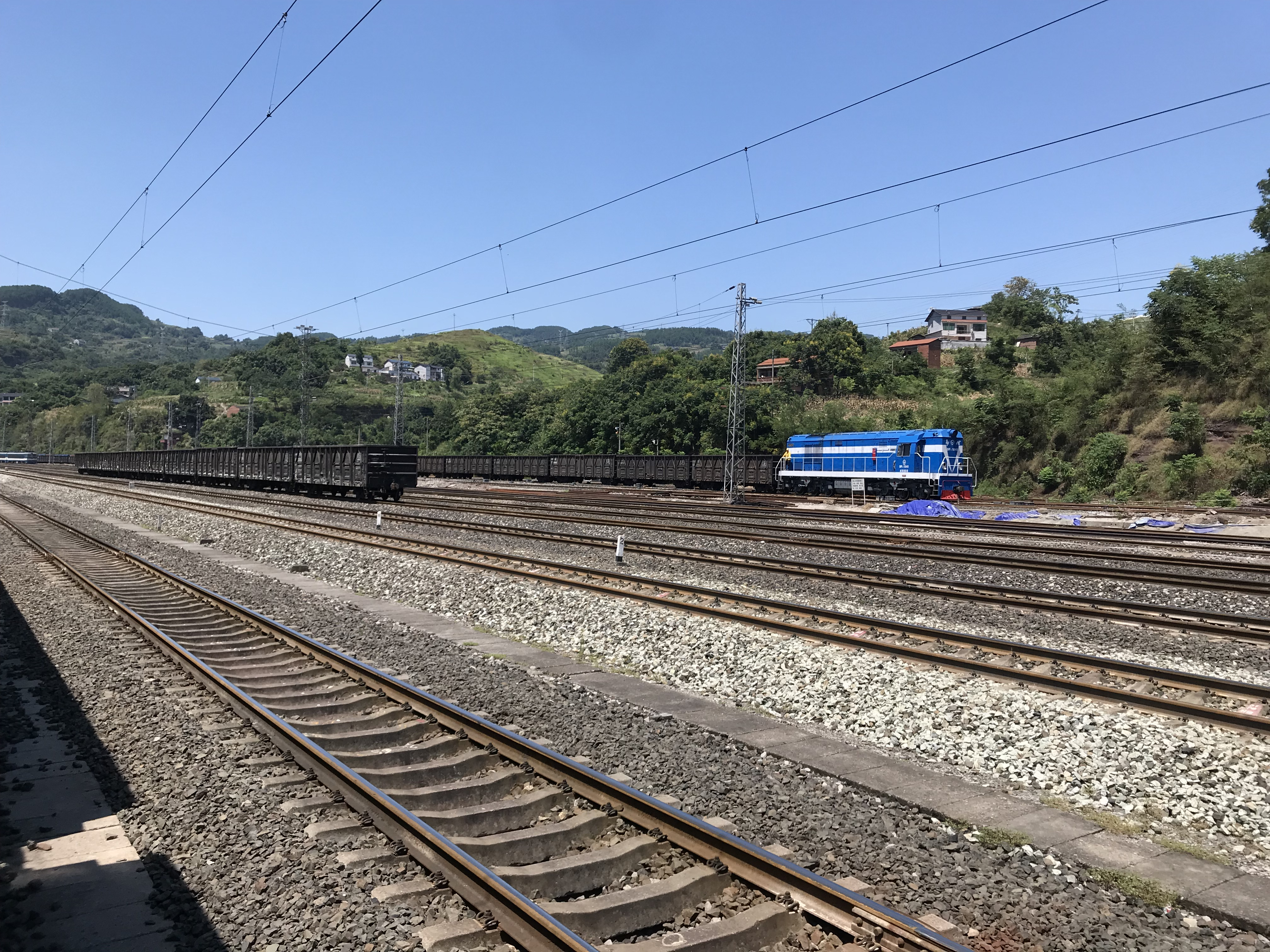 201908 DF5-1648 at Ganshuibei Station